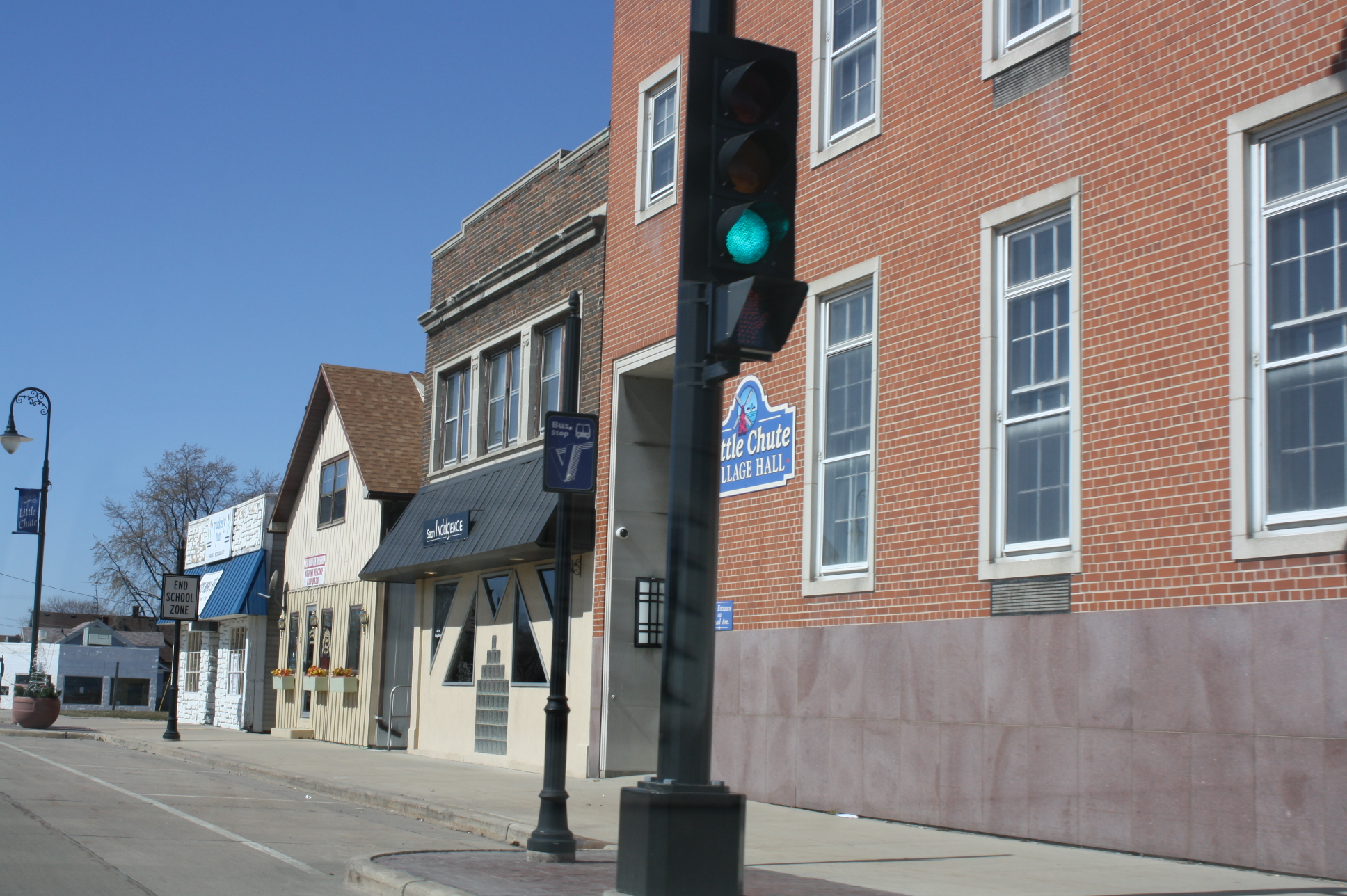 The village hall in downtown Little Chute, Wisconsin along Wisconsin Highway 96.